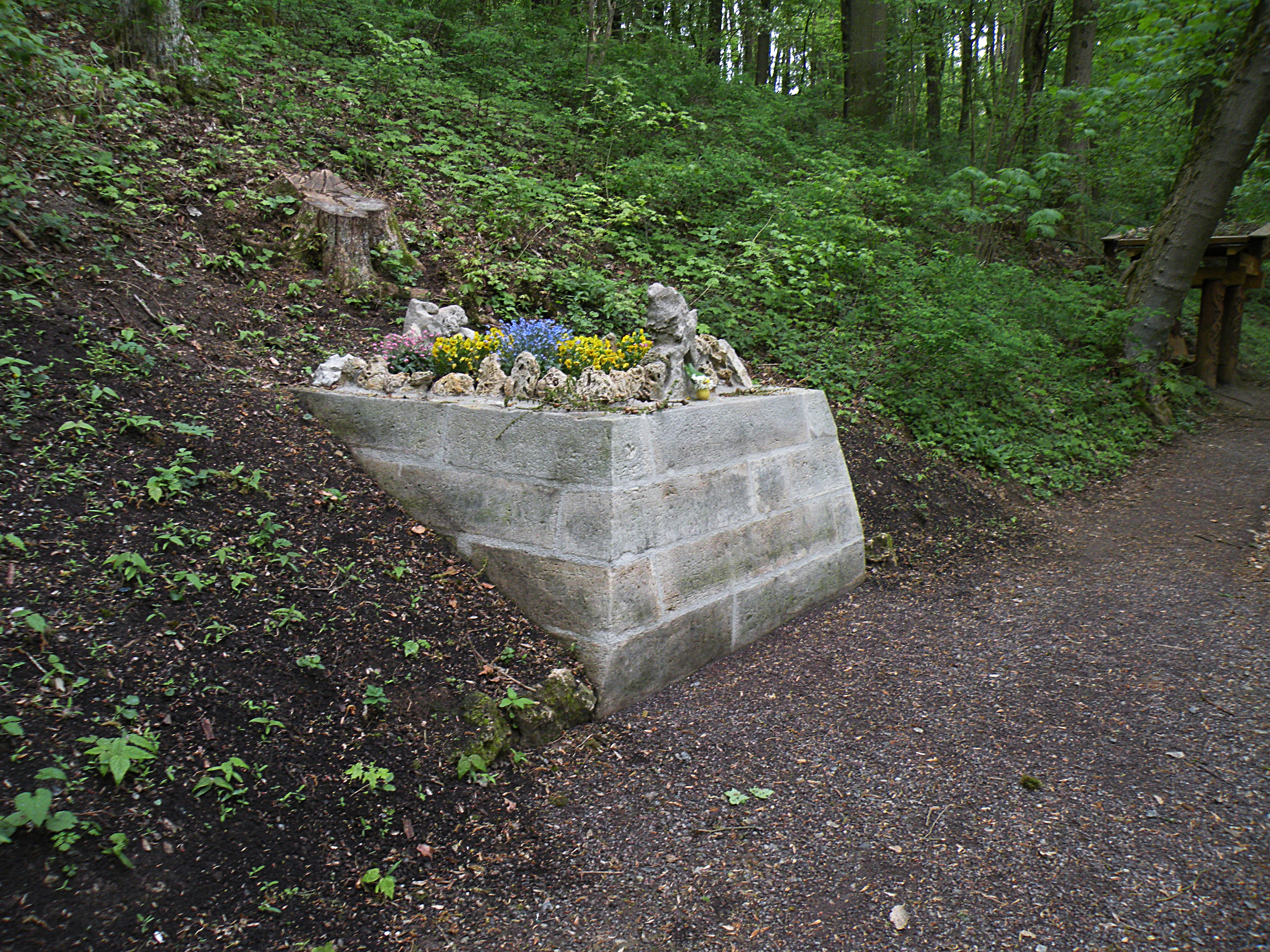 Dunkelgräfingrab - the Grab of Unknown (assumably of Marie Therese Charlotte of Bourbon - the daughter of Louis XVI)